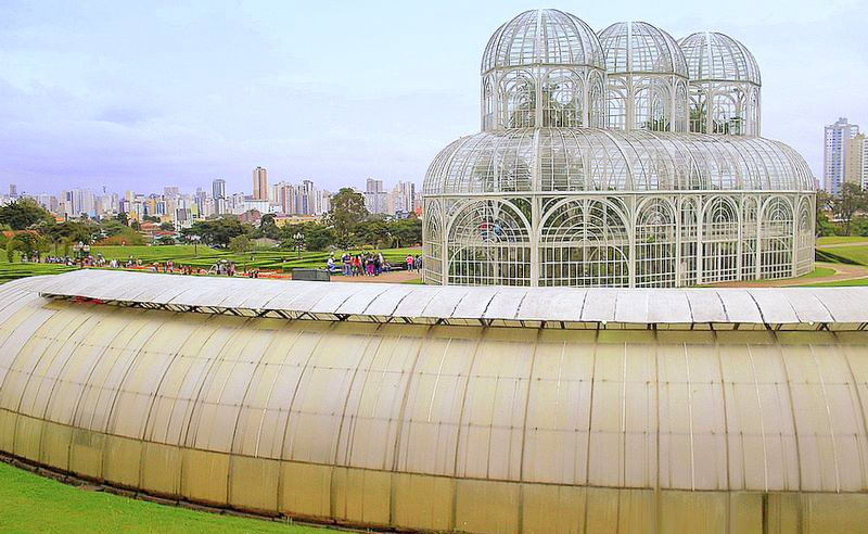 Botanical Garden of Curitiba, Paraná, Brazil